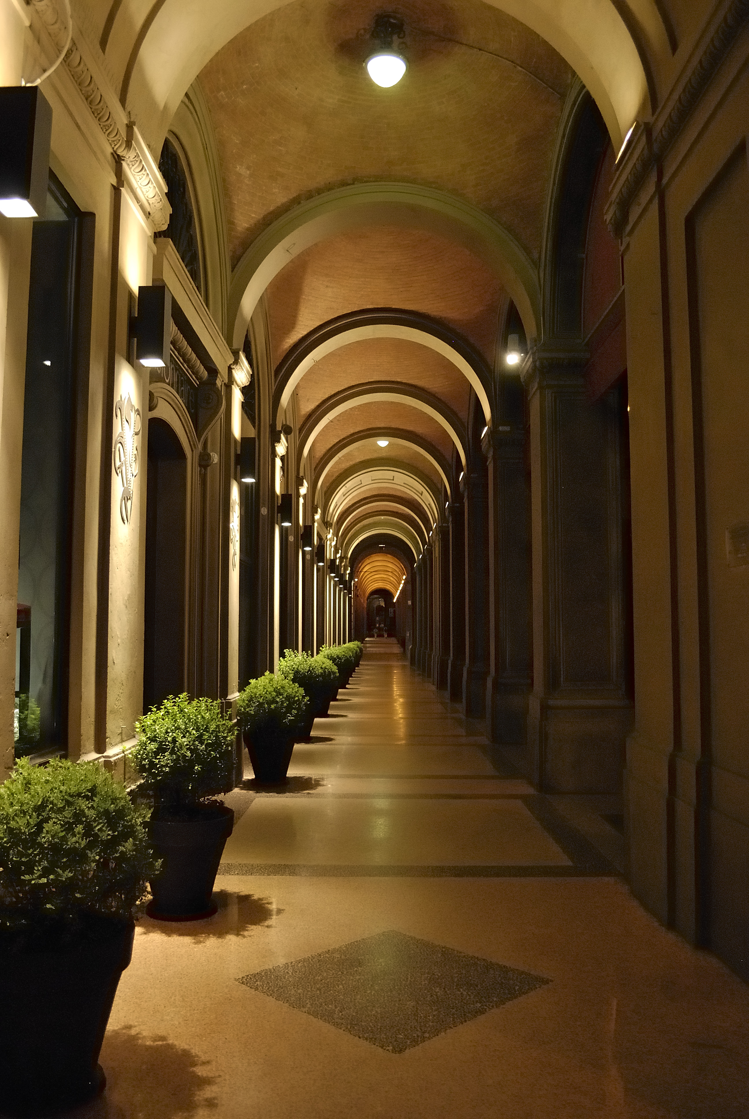 A night sight of the center of Bologna This is a photo of a monument which is part of cultural heritage of Italy.